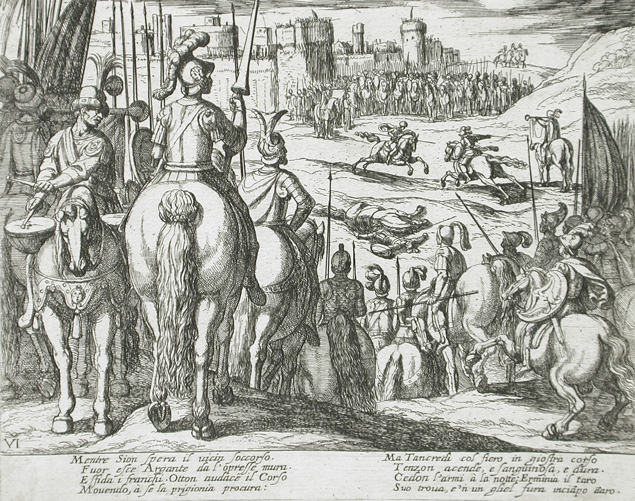 Italy, 16th century Series: Jerusalem Delivered II by Tasso Prints; etchings Etching Los Angeles County Fund (65.37.69) Prints and Drawings